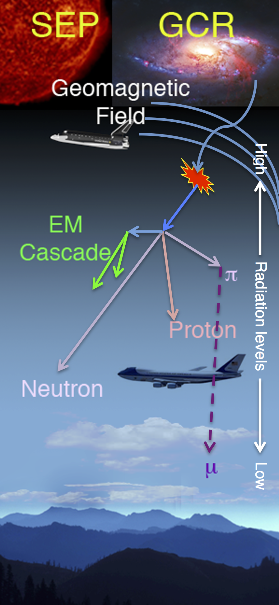 This is a graphic showing the cosmic ray and solar energetic particle environment for aviation radiation.